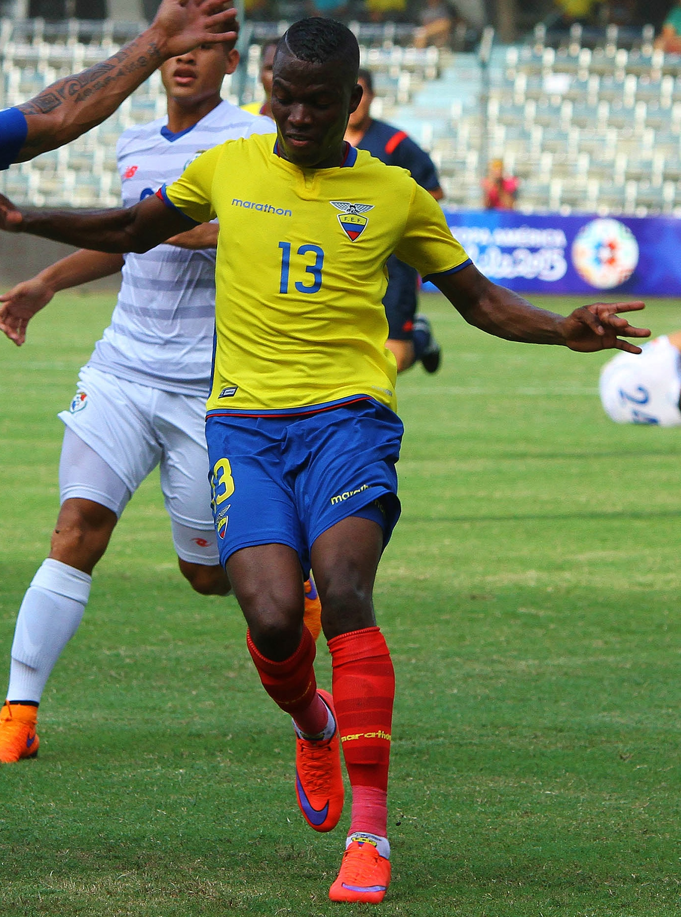 Guayaquil, 06 de jun (Andes).-En el estadio George Capwell, la selección de fútbol de Ecuador se enfrenta a Panamá en partido amistosoFoto: César Muñoz/Andes Enner Valencia